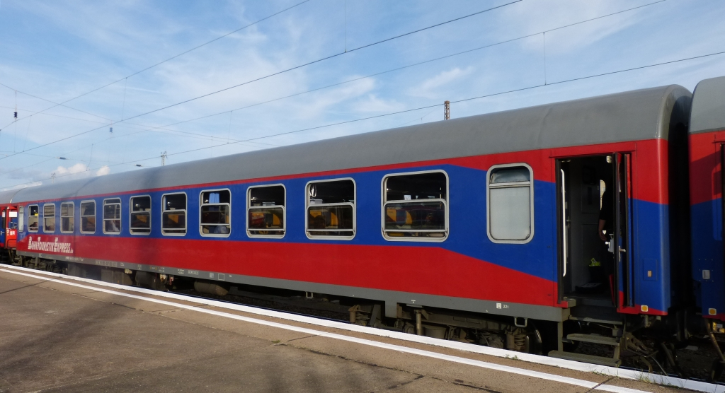 A german passenger car of Bahntouristikexpress in Berlin-Lichtenberg